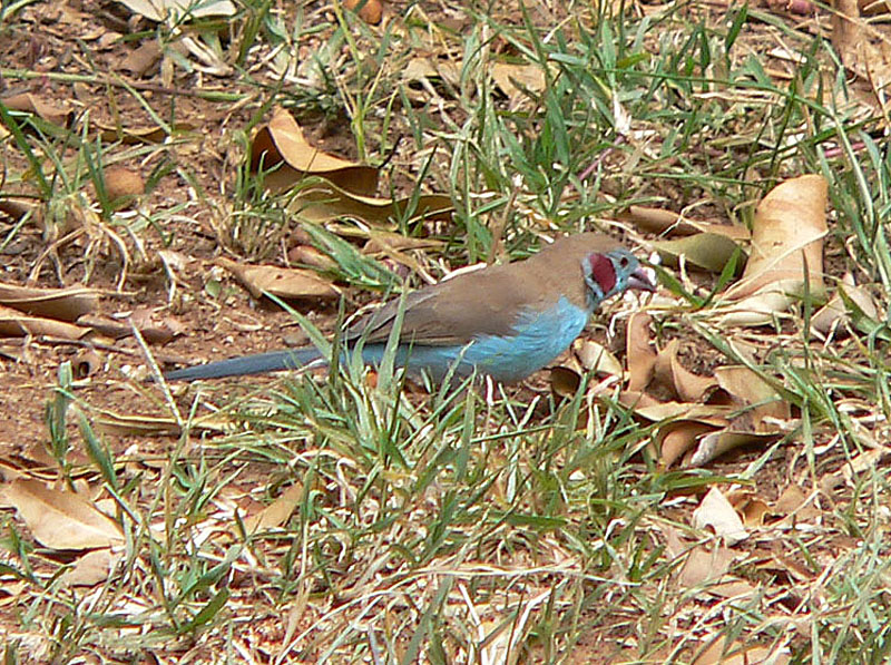 Male red-cheeked cordon-bleu photographed in Nanyuki, Kenya.